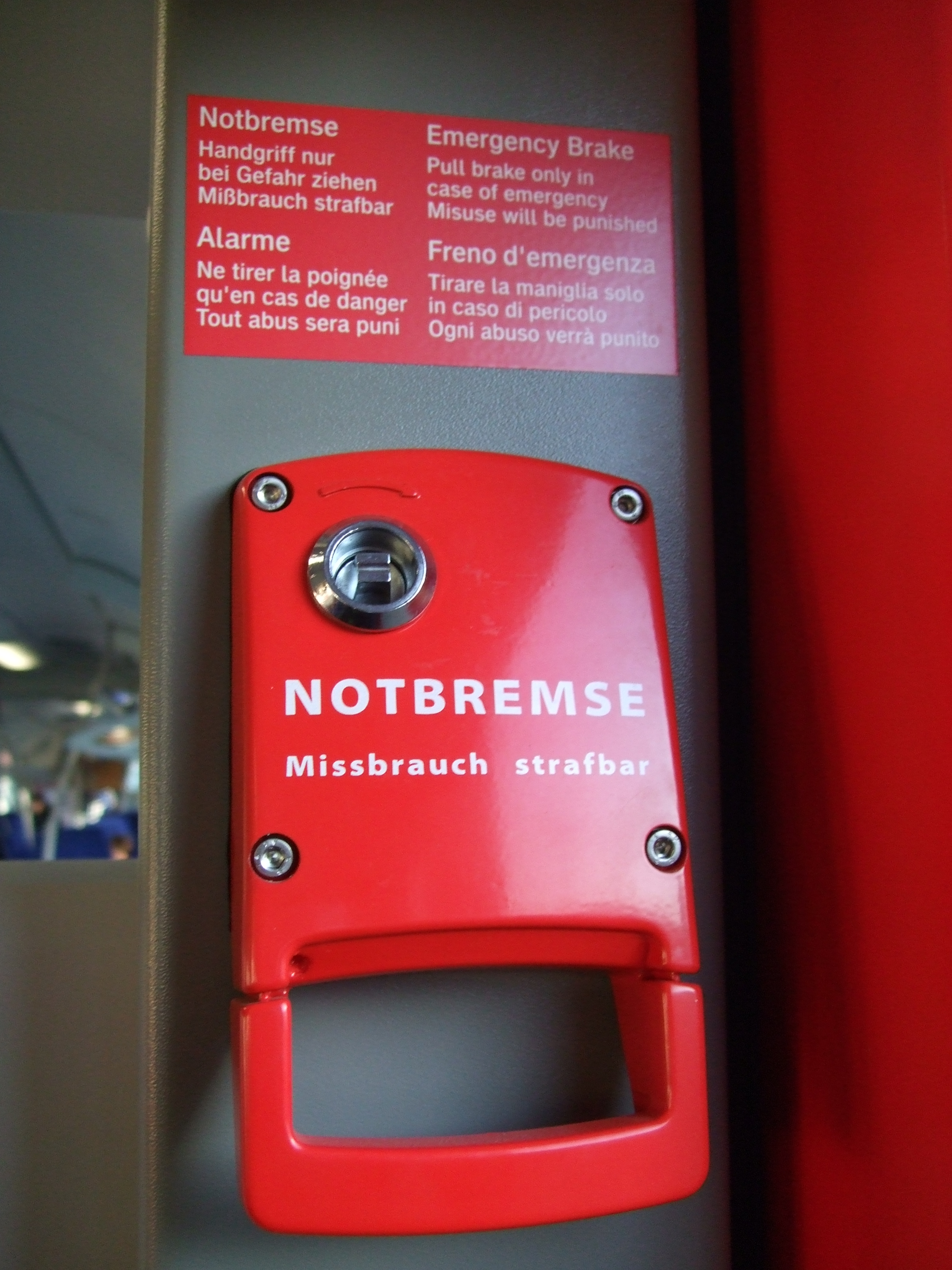 Emergency brake inside a German RB-train